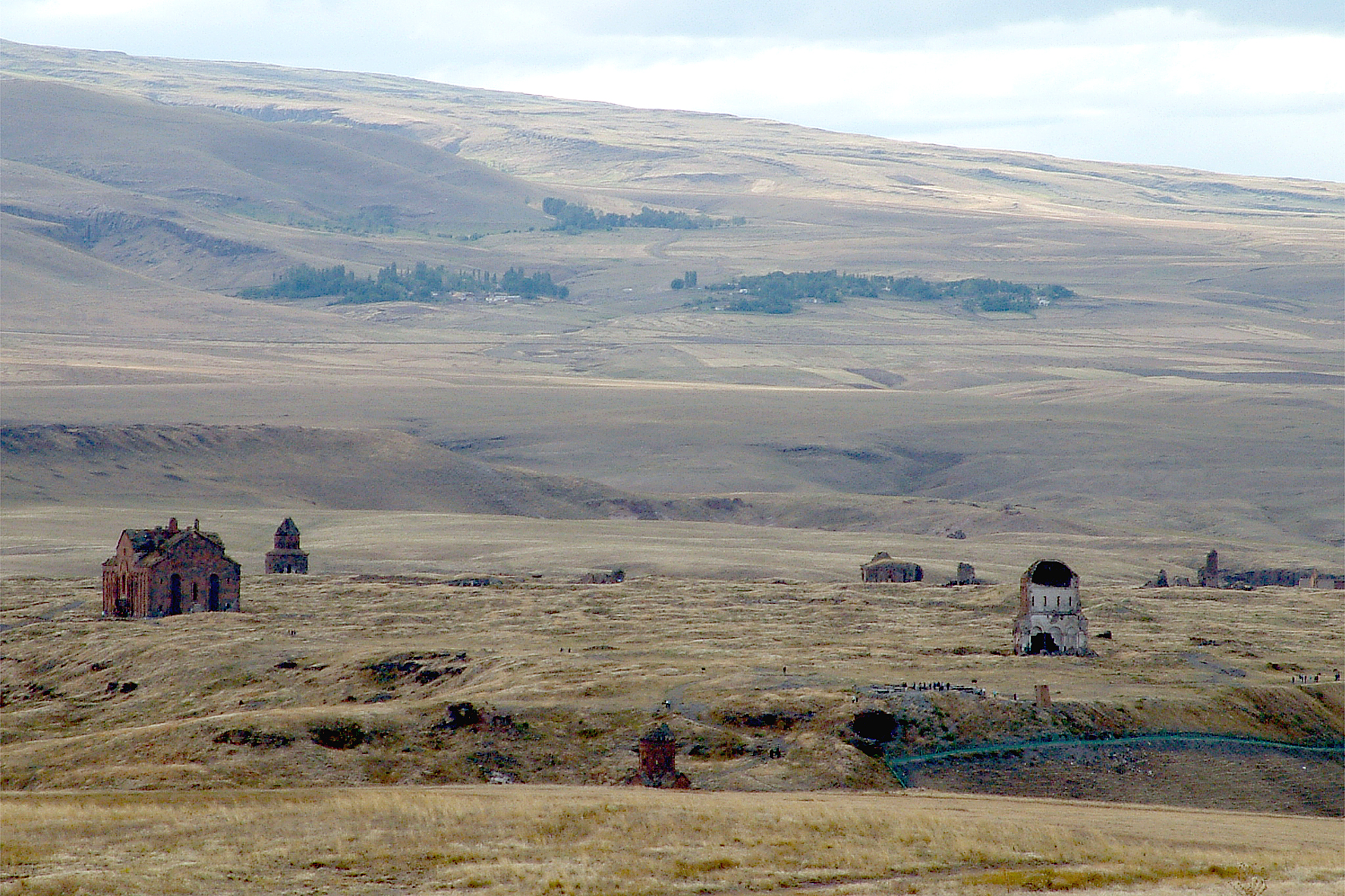 The medieval Armenian city of Ani now in Turkey as viewed from Armenia.